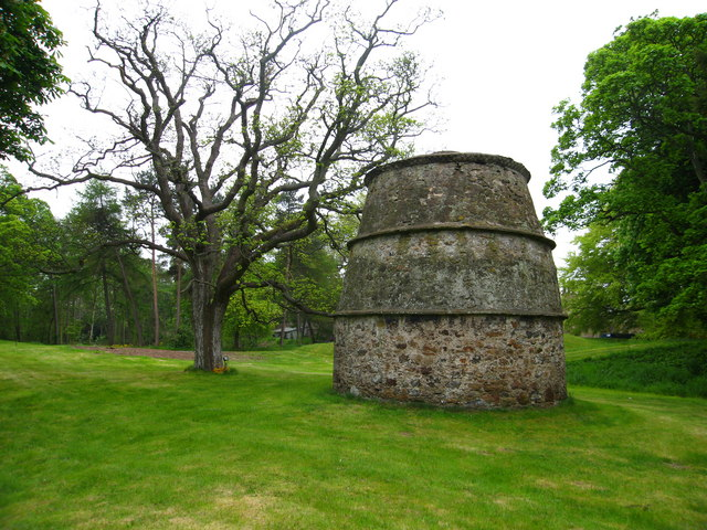 Luffness Doocot. Late 16th century, beehive dovecot (although may be as old as early 15th century) with 2 rat courses. In the grounds of Luffness House.